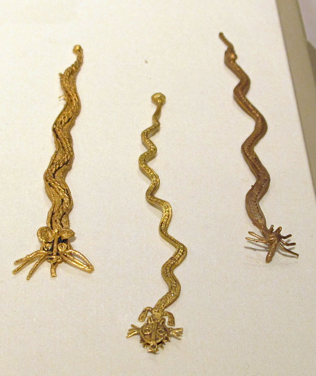 Pre-Columbian jewellery in the Metropolitan Museum of Art